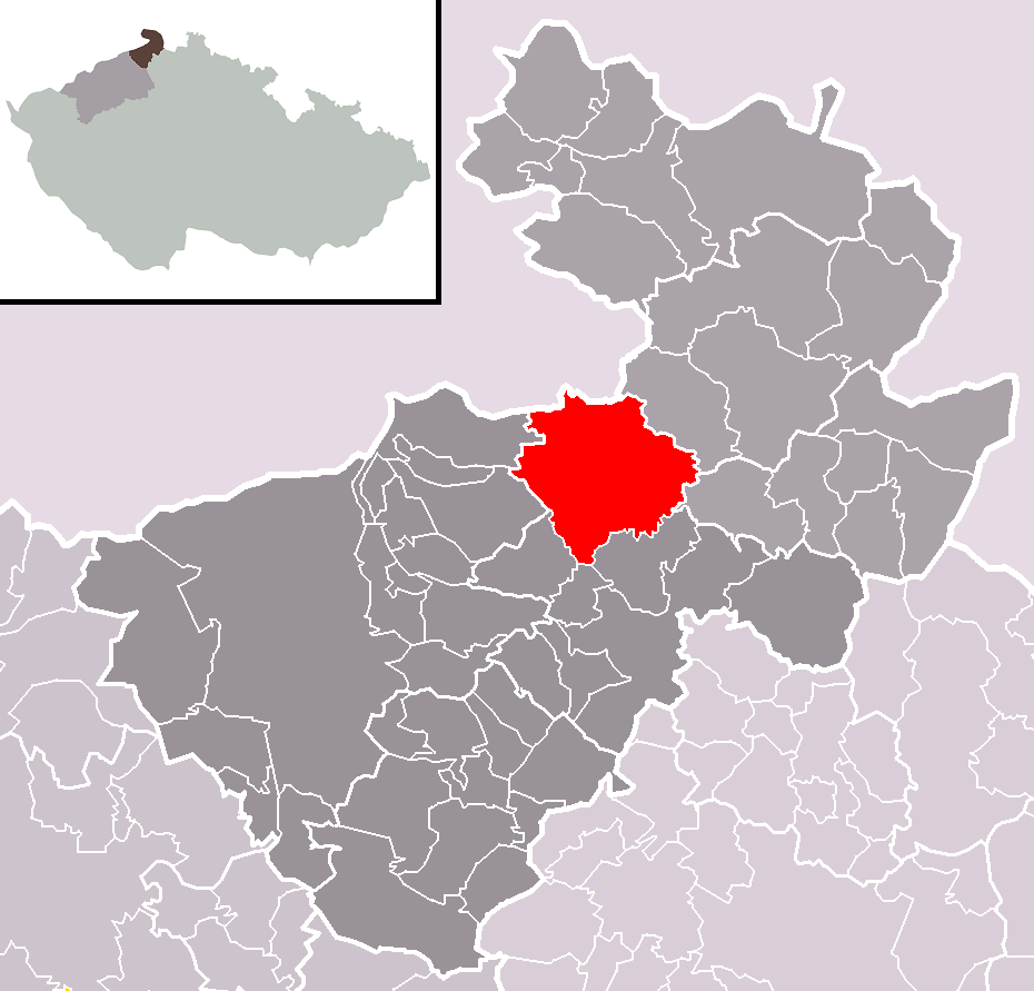 Location of Jetřichovice municipality within Děčín District and administrative area of Děčín as a Municipality with Extended Competence.